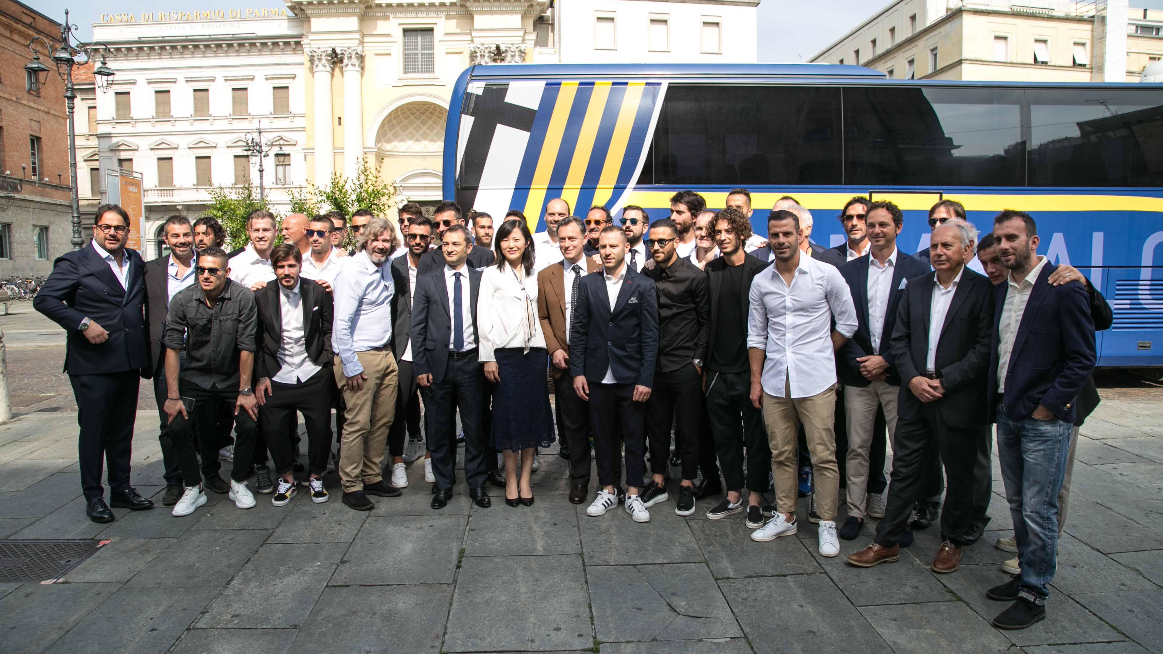 Parma (Italy), May 26, 2018. Parma Calcio, runner-up in the Italian Championship 2017–18 Serie B, is awarded at the city hall for its promotion in the Italian Championship 2018–19 Serie A.